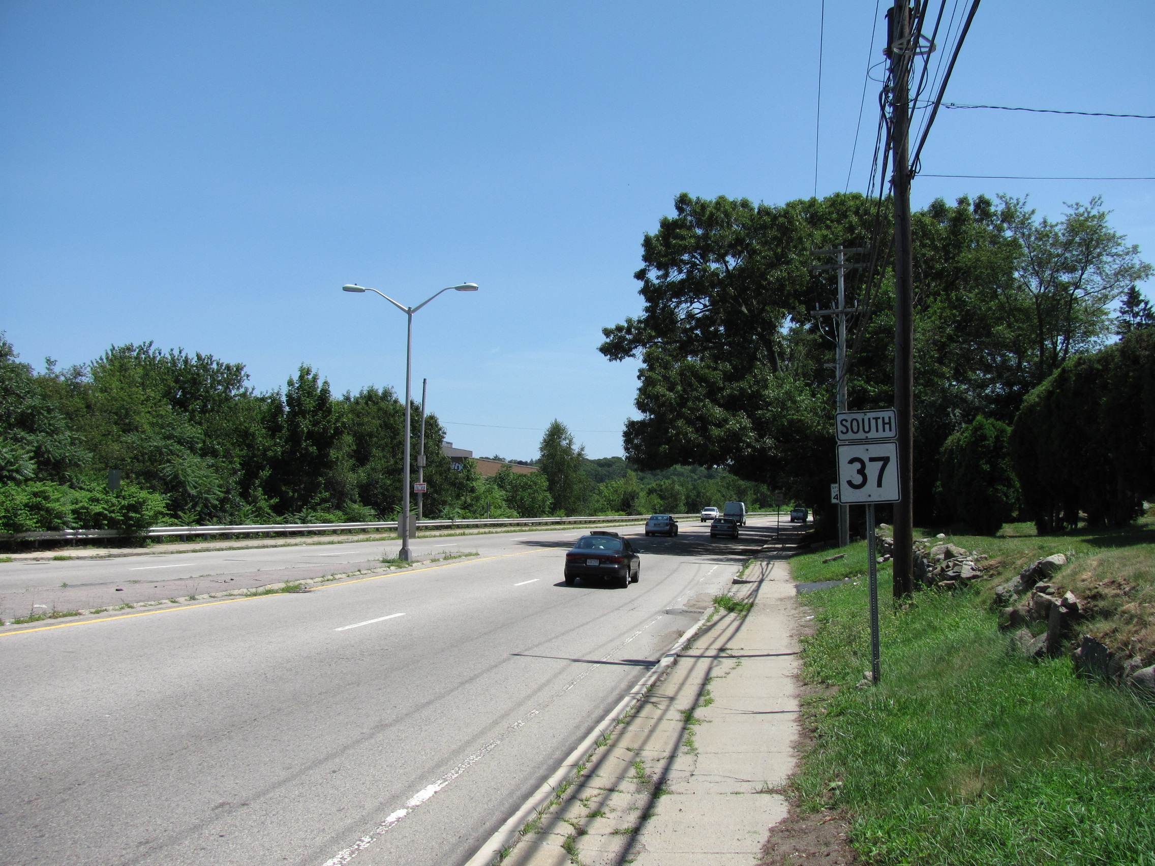 Massachusetts Route 37 southbound in Braintree Massachusetts